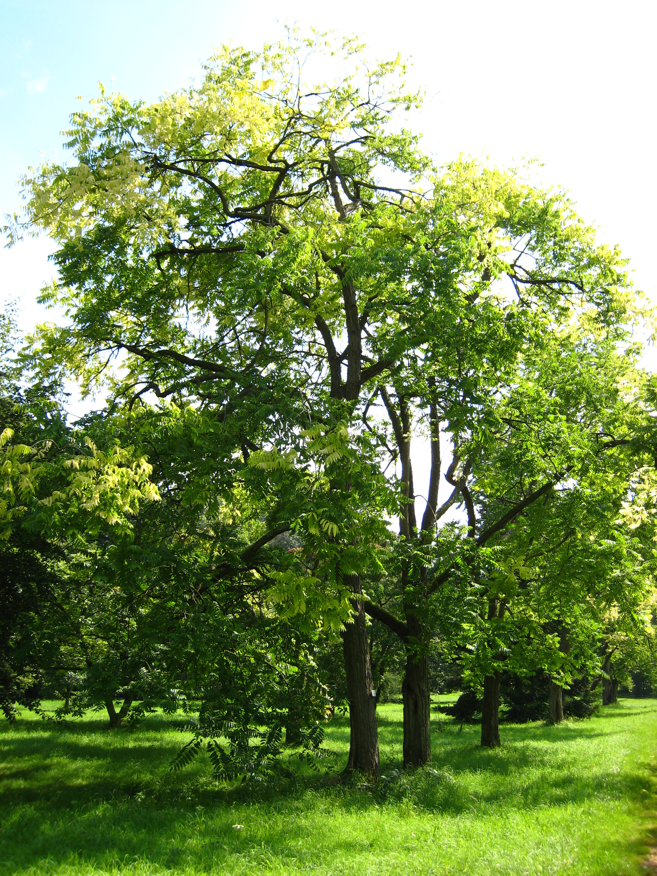 Toona sinensis (syn. Cedrela sinensis) in the Arboretum de Chèvreloup in Rocquencourt